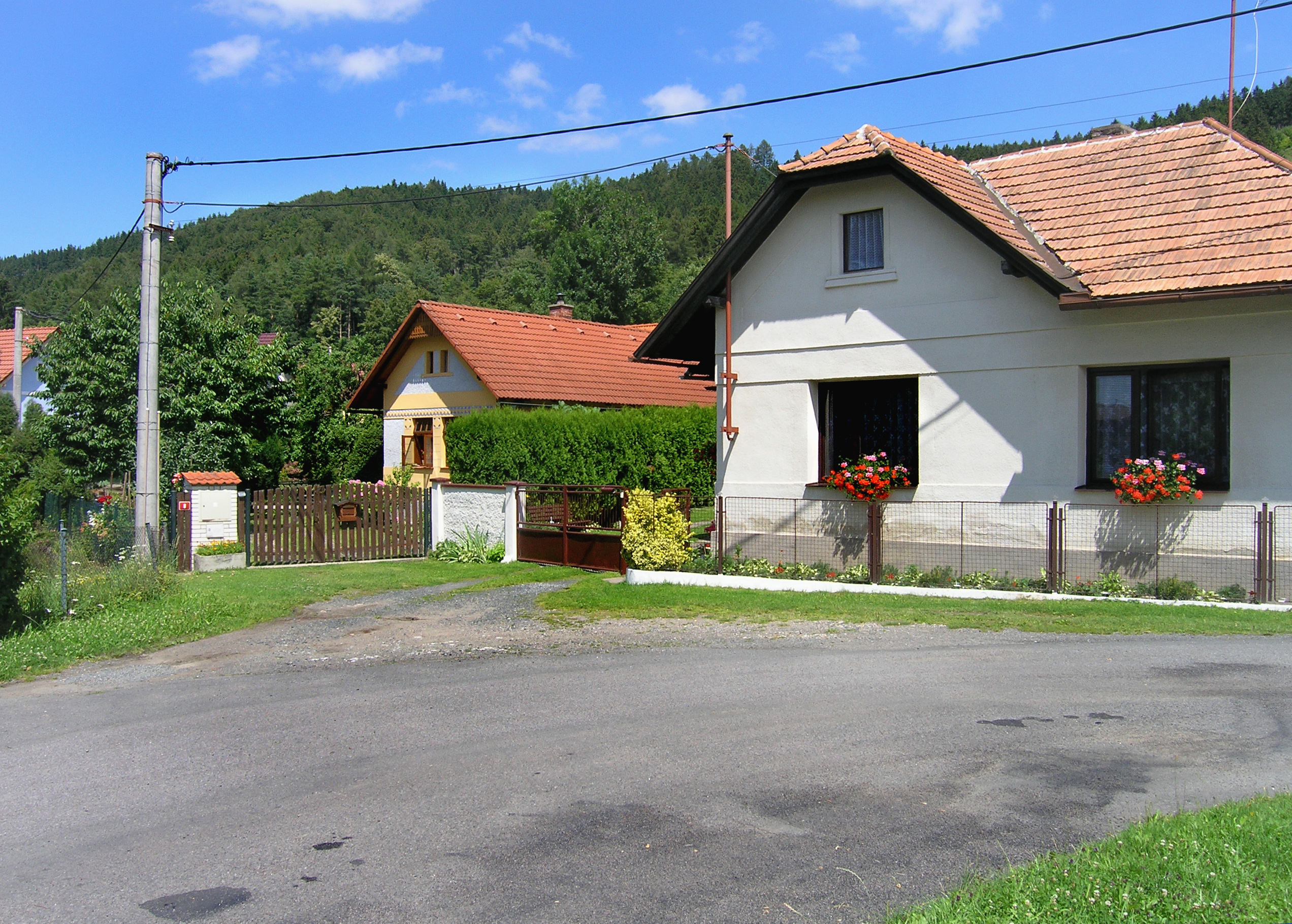 Common in Žlebské Chvalovice, Czech Republic